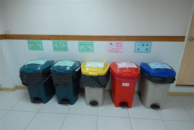 Hsiao Chung Cheng Hospital assorted of colorful trash cans for medical wastes.